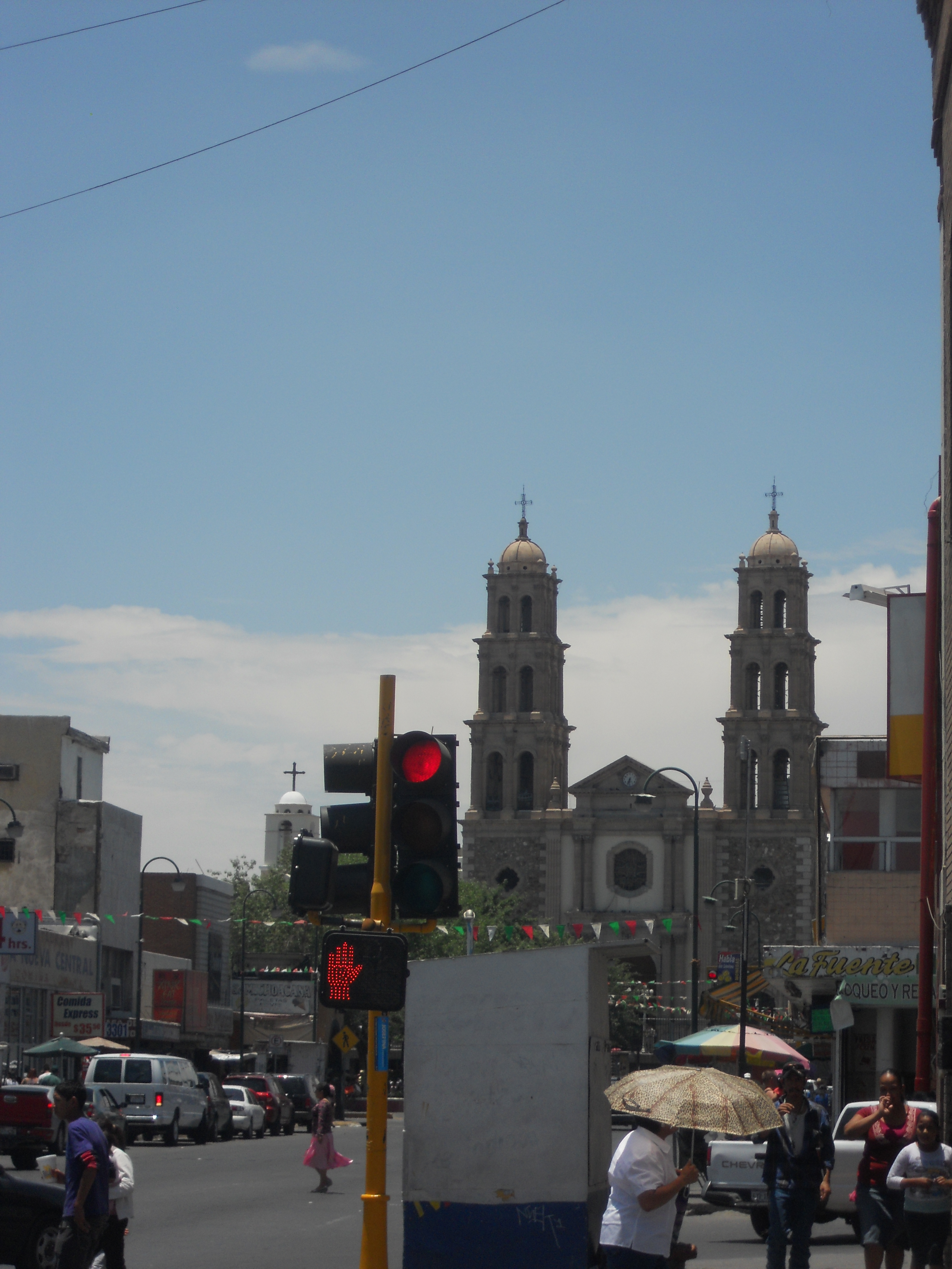 A view of Juarez´s cathedral